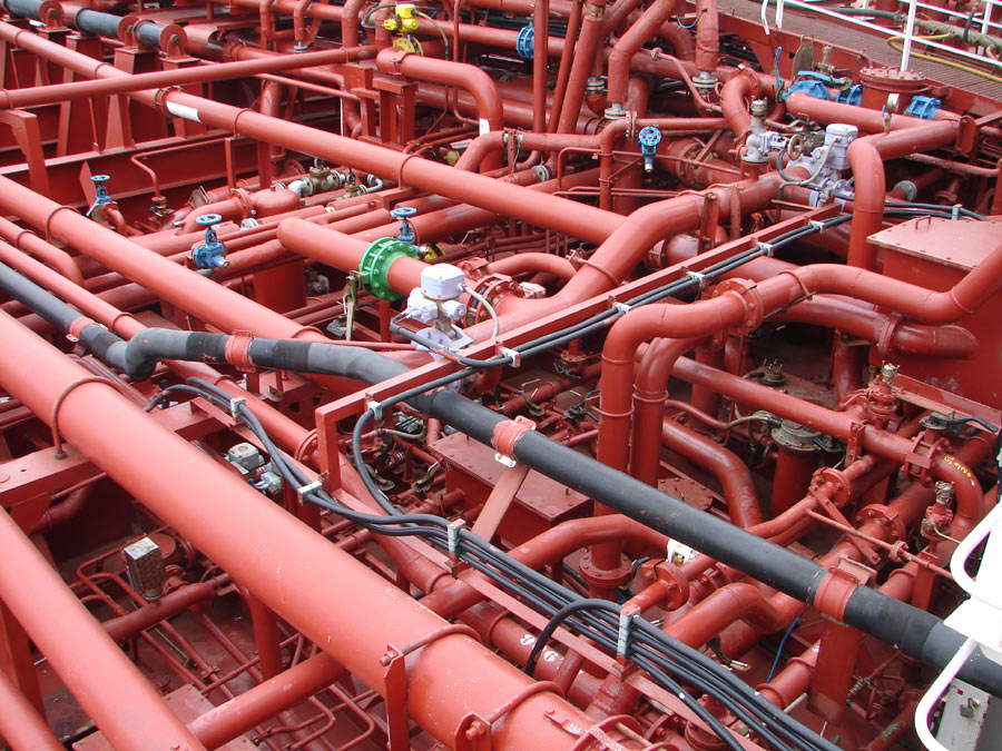 The piping system on the oil/chemical tanker Bro Elizabeth in dry dock in Brest.